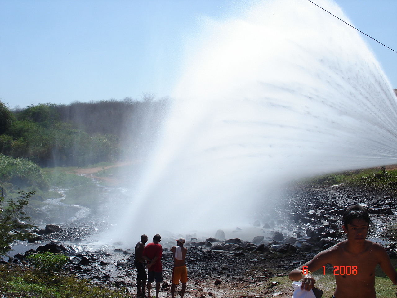 "Peacock Tail of" Dam of Capybara, a section of the city's tourism Uiraúna